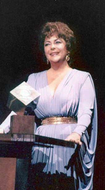 Actress Elizabeth Taylor at a Filmex "An Evening With Elizabeth Taylor"